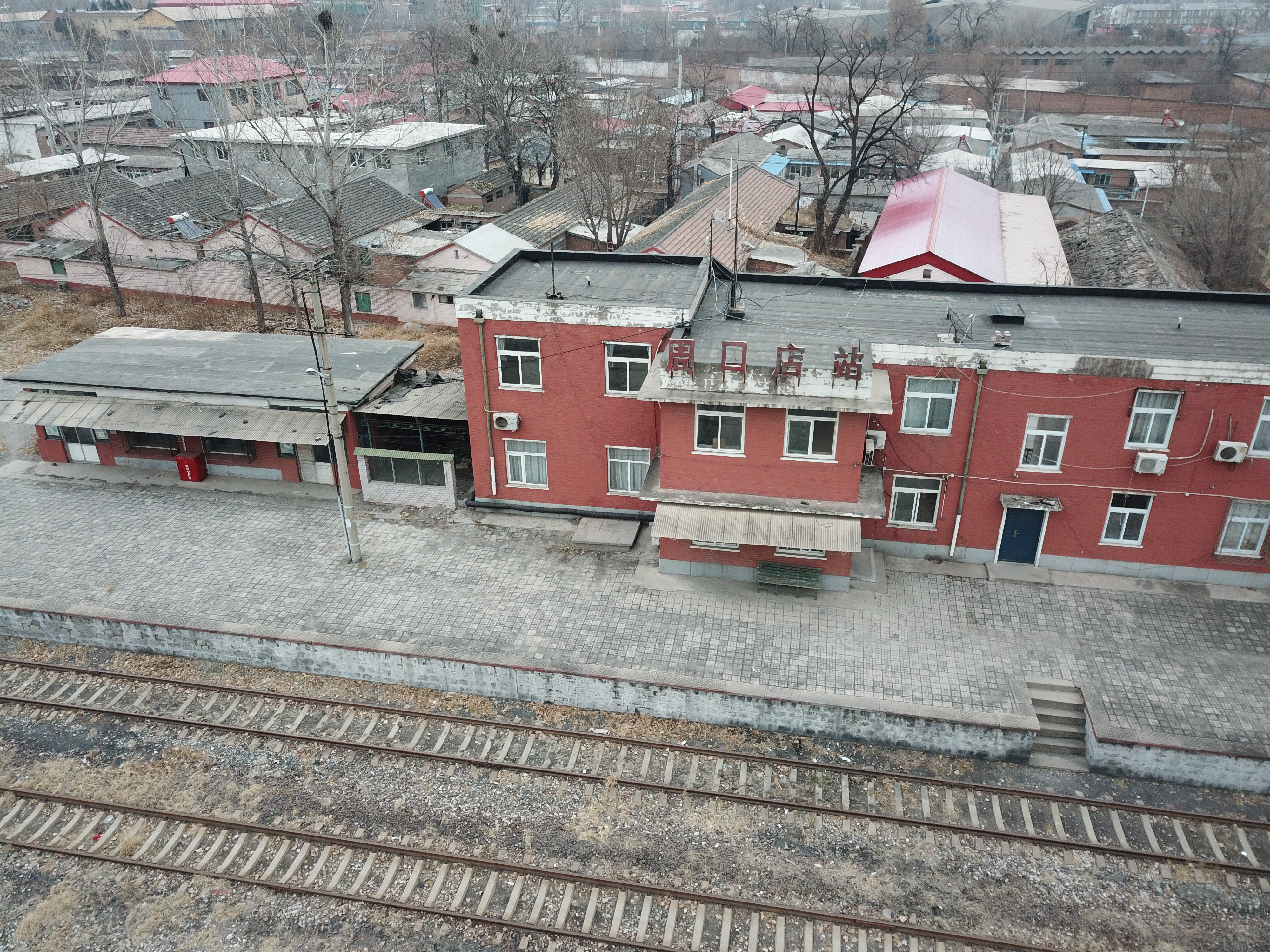 Zhoukoudian Railway Station